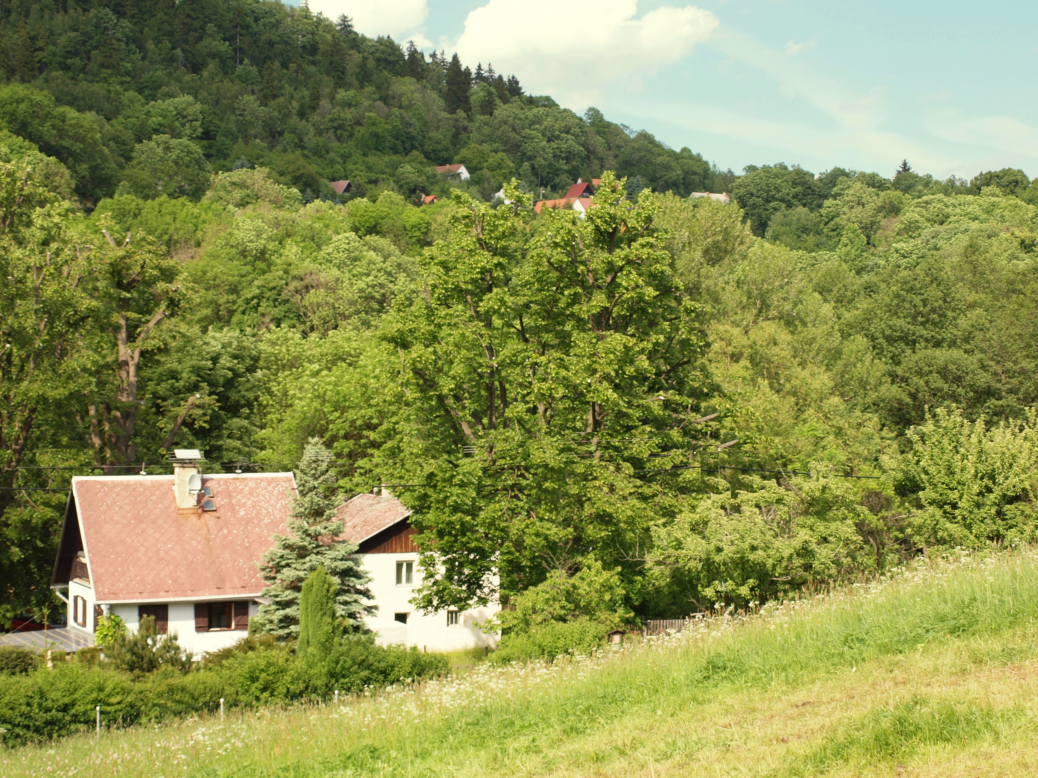 Čeřeniště